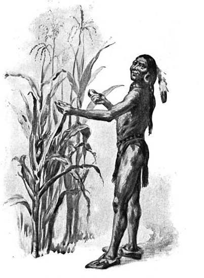 How Well The Corn Prospered. Squanto or Tisquantum demonstrating corn he had fertilized by planting with fish.